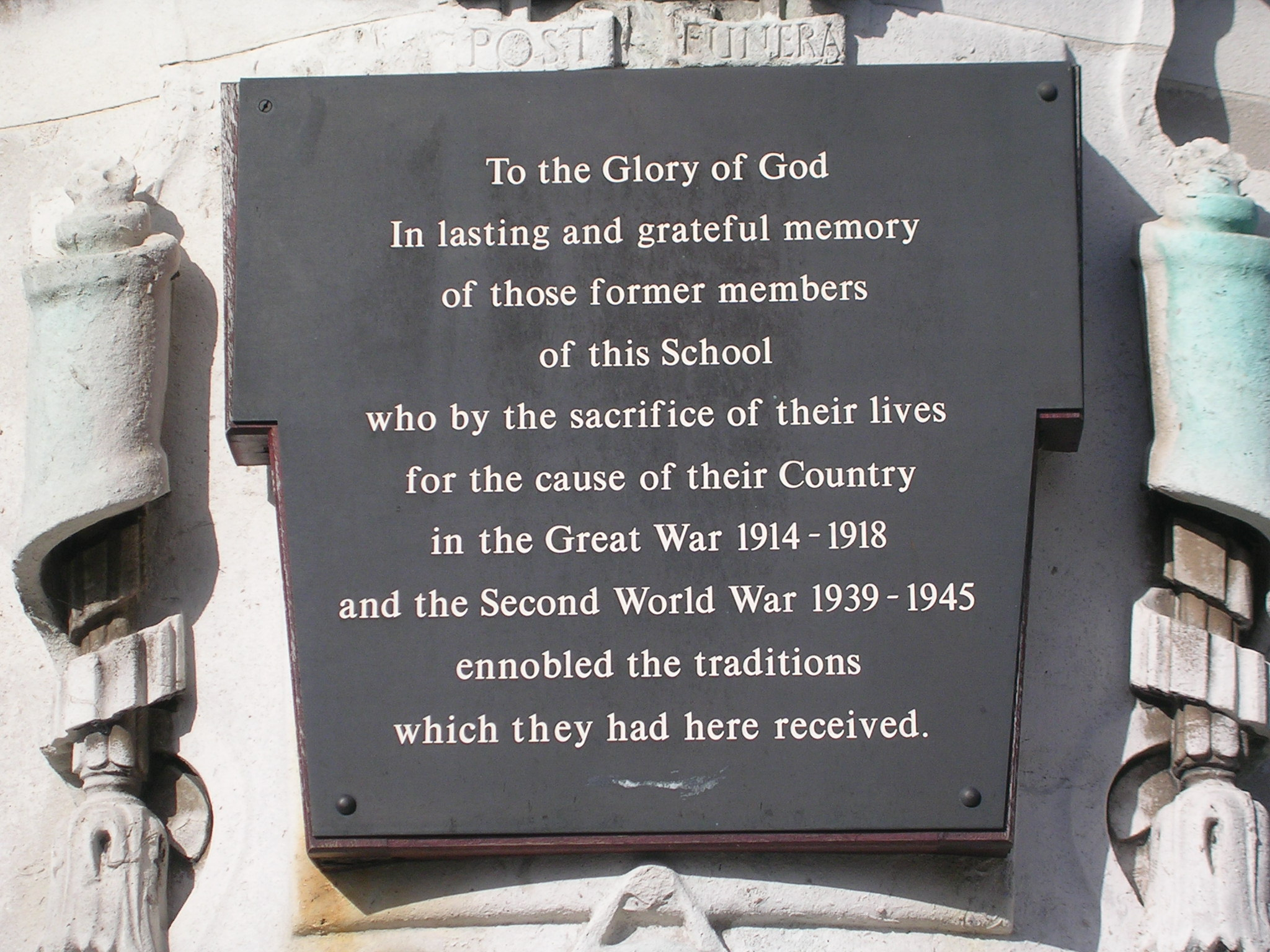 Plaque on the war memorial at Nottingham High School. Affixed to the weathered, discoloured white stone war memorial is a black plaque with white text in Times New Roman font. The text, which is centred and has generous line spacing, reads:"To the Glory of GodIn lasting and grateful memoryof those former membersof this Schoolwho by the sacrifice of their livesfor the cause of their Countryin the Great War 1914 – 1918and the Second World War 1939 – 1945ennobled the traditionswhich they had here received."